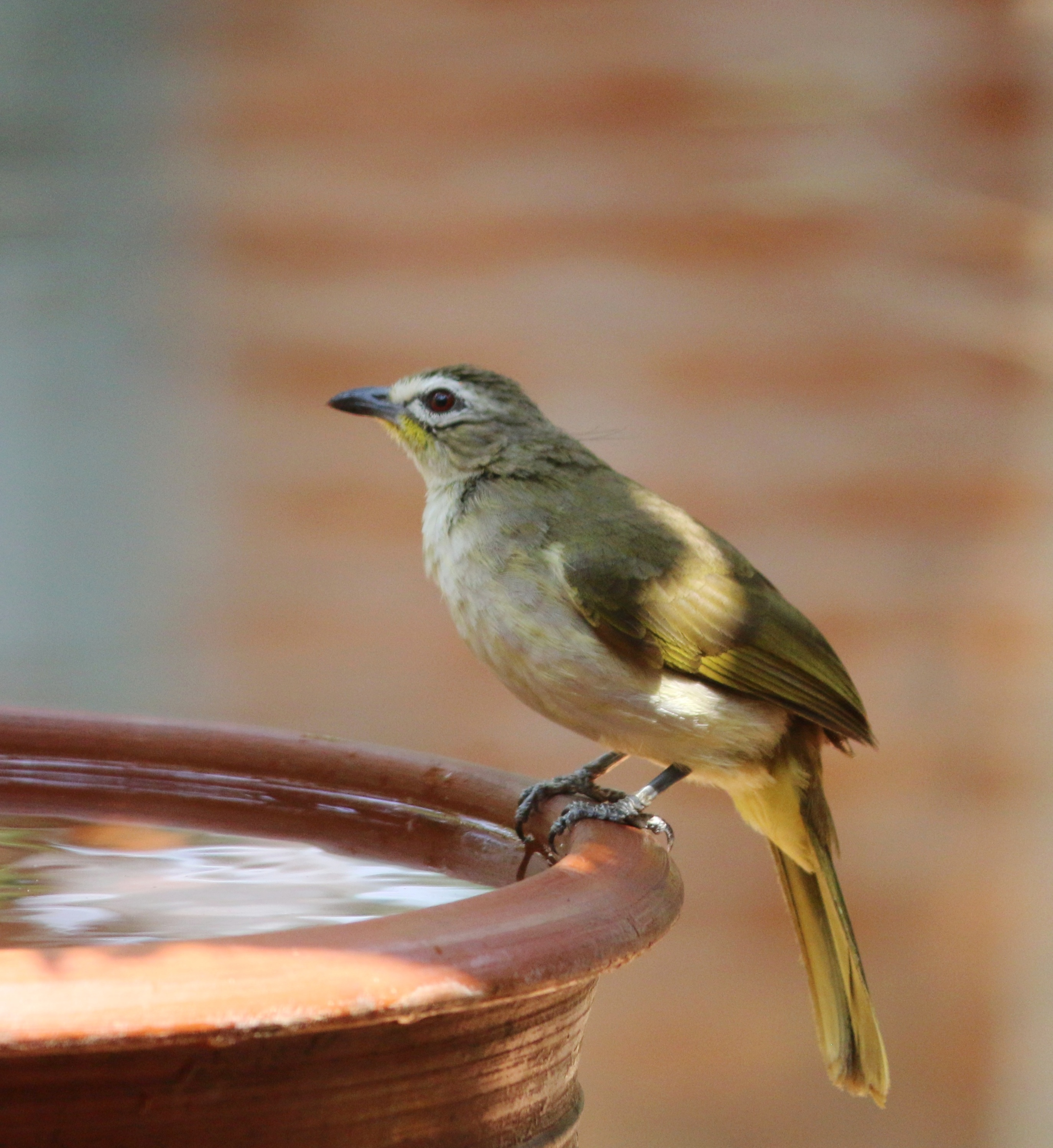 White browed bulbul in bird bath